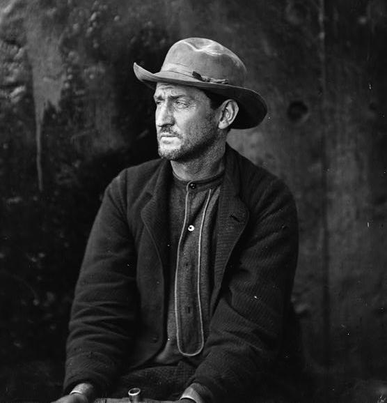 Washington Navy Yard, D.C. Edmund Spangler, a "conspirator," in hat and manacled. Photograph of Washington, 1862-1865, the assassination of President Lincoln, April-July 1865. This photograph has background of dark metal, and was presumably taken on the monitors, U.S.S. Montauk and Saugus, where the conspirators were for a time confined.